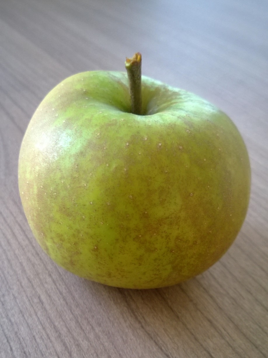 Lunterse pippeling apple